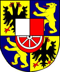 Coat of arms (shield only) of Ferdinand Maria Chotek, bishop of Tarnów, Poland (1831 - 1832), archbishop of Olomouc, Czech republic (1832 - 1836).